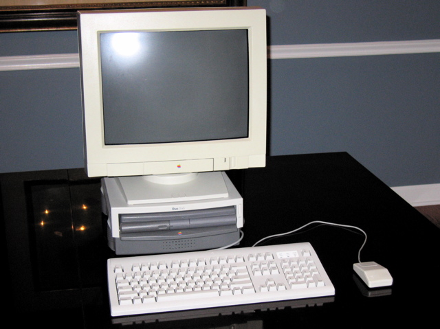 PowerBook Duo full enclosed in Duo Dock II, with display, keyboard and mouse.